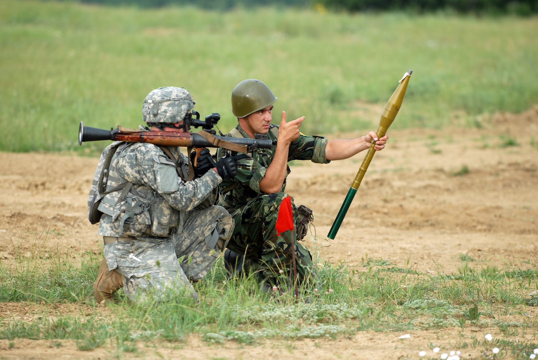 Combined U.S.-Bulgarian training at Bulgaria's Novo Selo Training Area June 16 as part of the 2010 Task Force-East training rotation. (Photo by Sgt. Charles Crail)